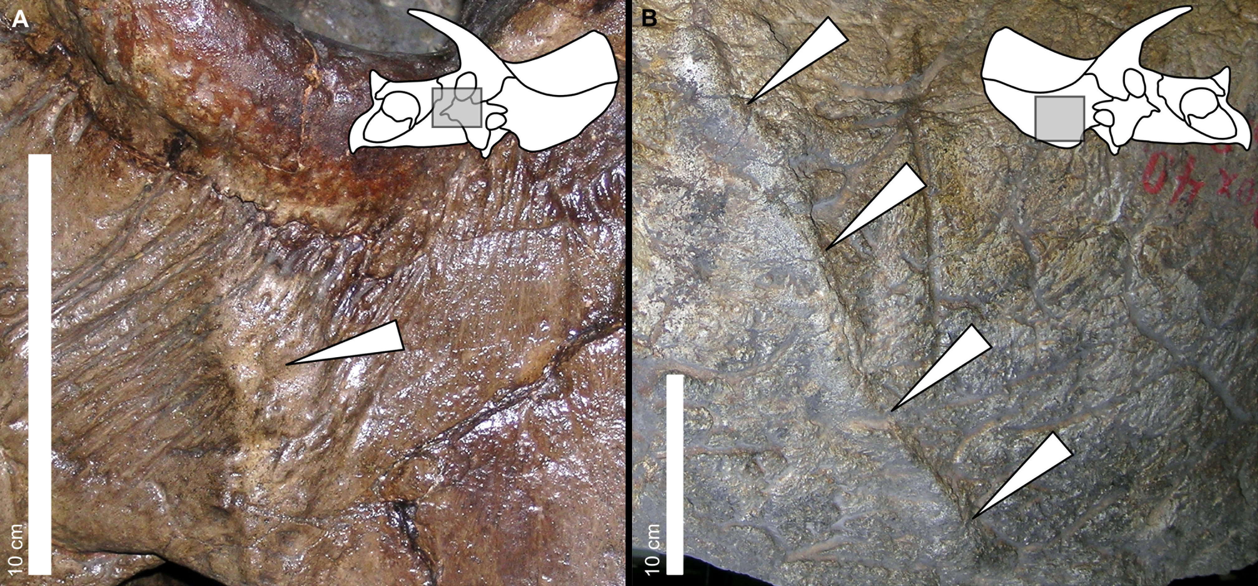 Examples of periosteal reactive bone in selected specimens of Triceratops. Arrows indicate lesions on (A) the left jugal of YPM 1822 (Yale Peabody Museum, New Haven, Connecticut, USA) and (B) the right squamosal of YPM 1828. The inset skull graphics indicate the approximate area of each photograph with a gray box.